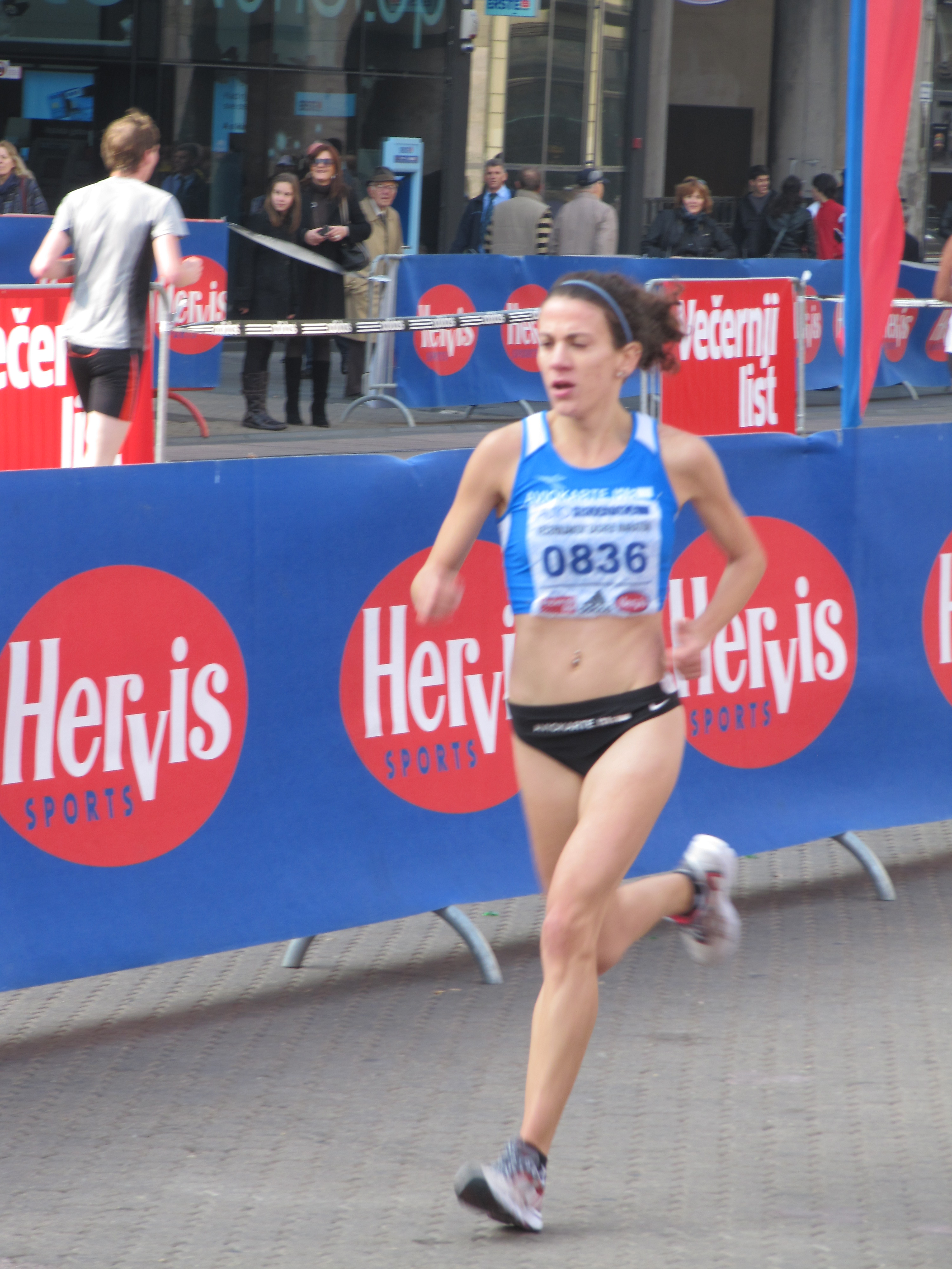 Lisa Christina Stublić of Croatia en route to winning the half marathon race at the 2010 Zagreb Marathon.